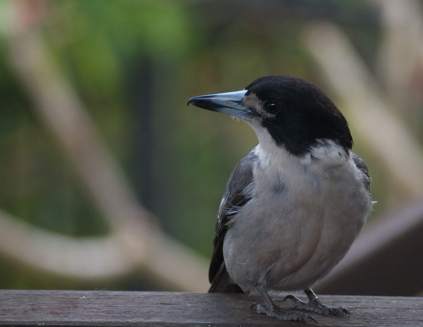 A Grey Butcherbird in Brisbane, Queensland, Australia.